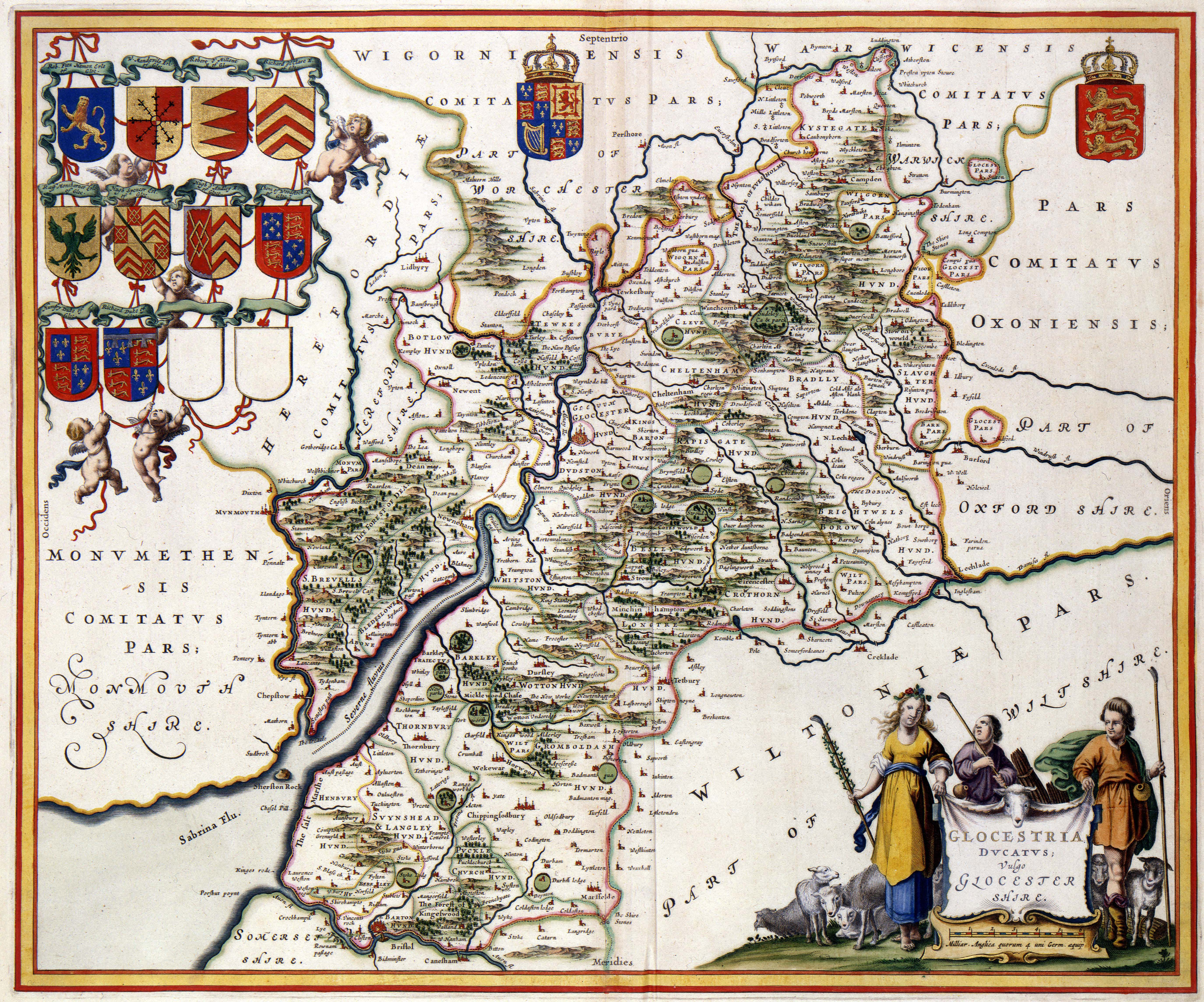 In 1645, Joan Blaeu (1598-1673) successfully published an atlas of England. Blaeu based this atlas on the Theatre of the Empire of Great Britaine published by his English colleague John Speed (1552-1629) in 1611. Infected by this success, Blaeus neighbour, Jan Janssonius (1588-1664), copied the complete atlas. Janssonius published this pirate issue in 1646. This map of Gloucester has been taken from Janssonius atlas. The map is enriched with allegorical figures and attributes representing the economical and cultural character of the province.